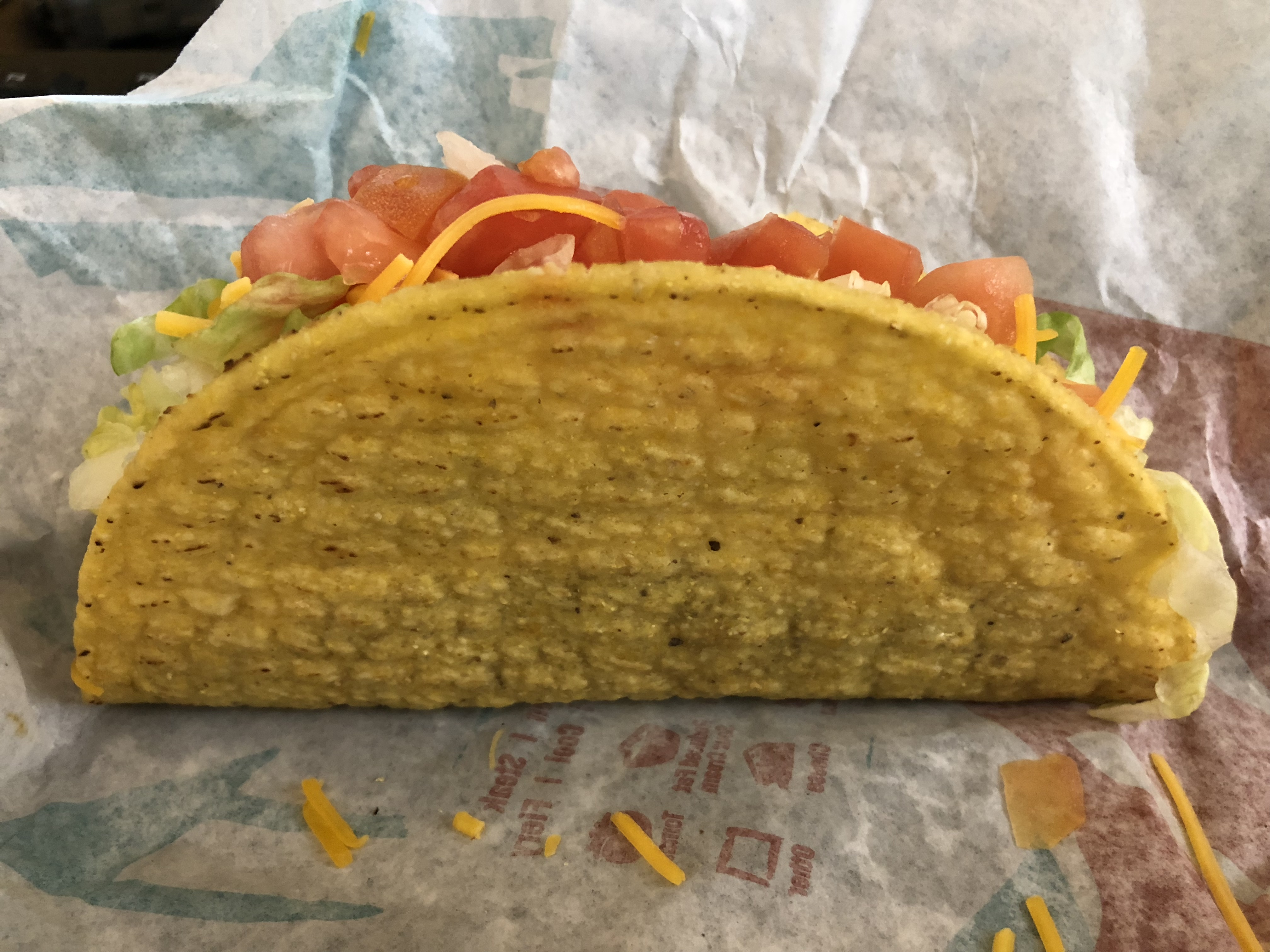 A Crunchy Taco Supreme from Taco Bell in the Franklin Farm section of Oak Hill, Fairfax County, Virginia